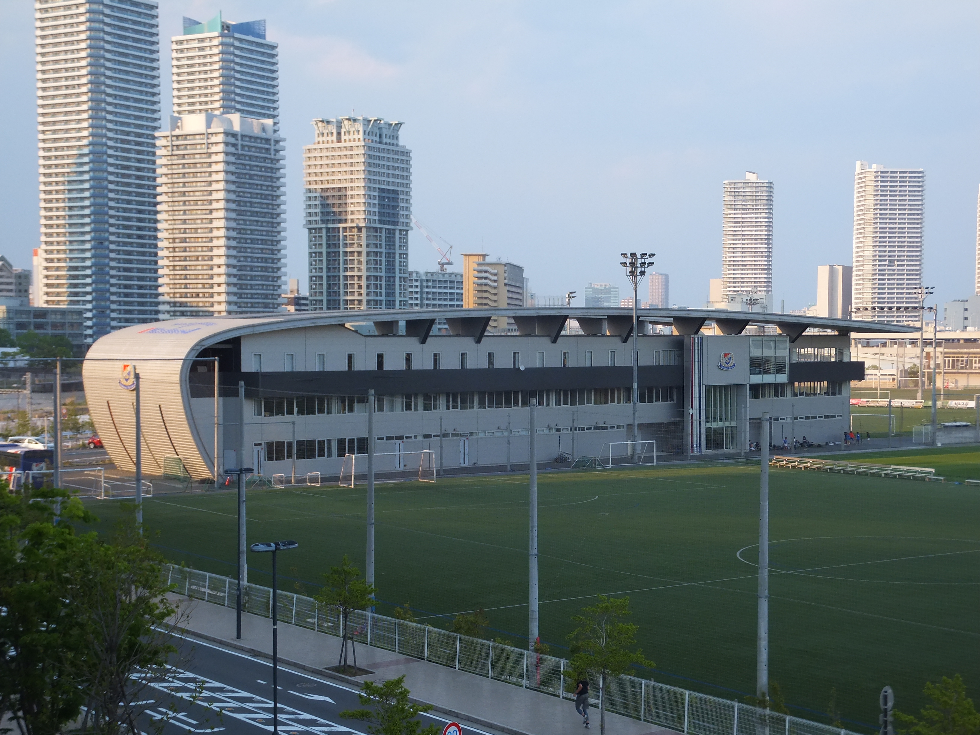 'Marinos Town' is the training facilities of the Yokohama F. Marinos that is the association football team of Japan. It is located in Minatomirai Area of Yokohama.